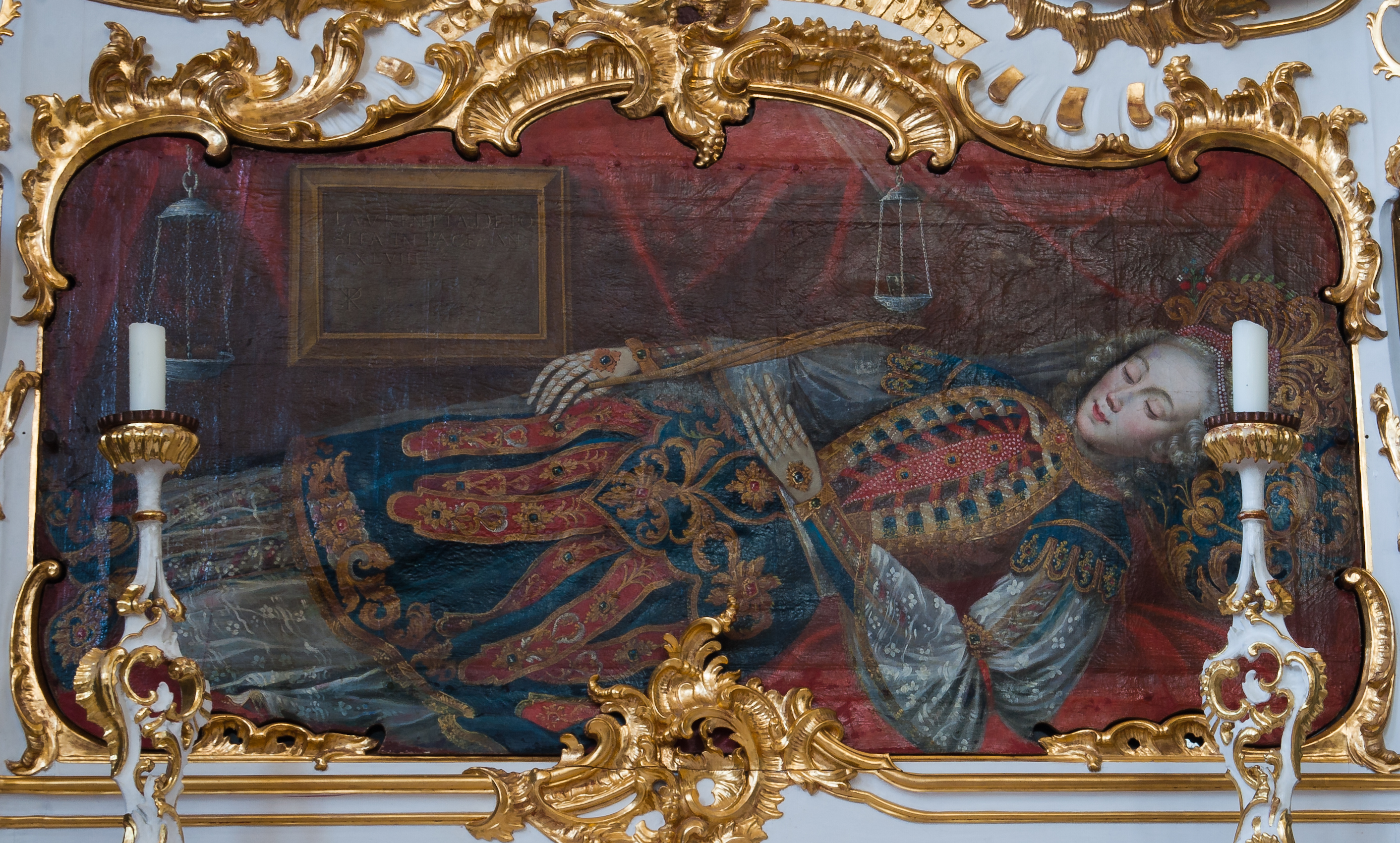 Lower altar painting at the southern side altar of the scapular brotherhood, depicting Saint Laurentia. The inscription (upper left) reads: LAVRENTIA DEPO SITA IN PACE AN CXLVIII ☧ Translated: Laurentia, rest in peace in the year 148 XP. St. Laurentia belongs to the martyrs that were transfered in 1722 and 1723 by abbot Dominikus Schwaninger from the catacombs of Rome to Roggenburg. Unidentified painter Description18th-century portrait painting of women, with Not identified, Unspecified, Unmentioned, Unknown or Anonymous artist, and missing year.